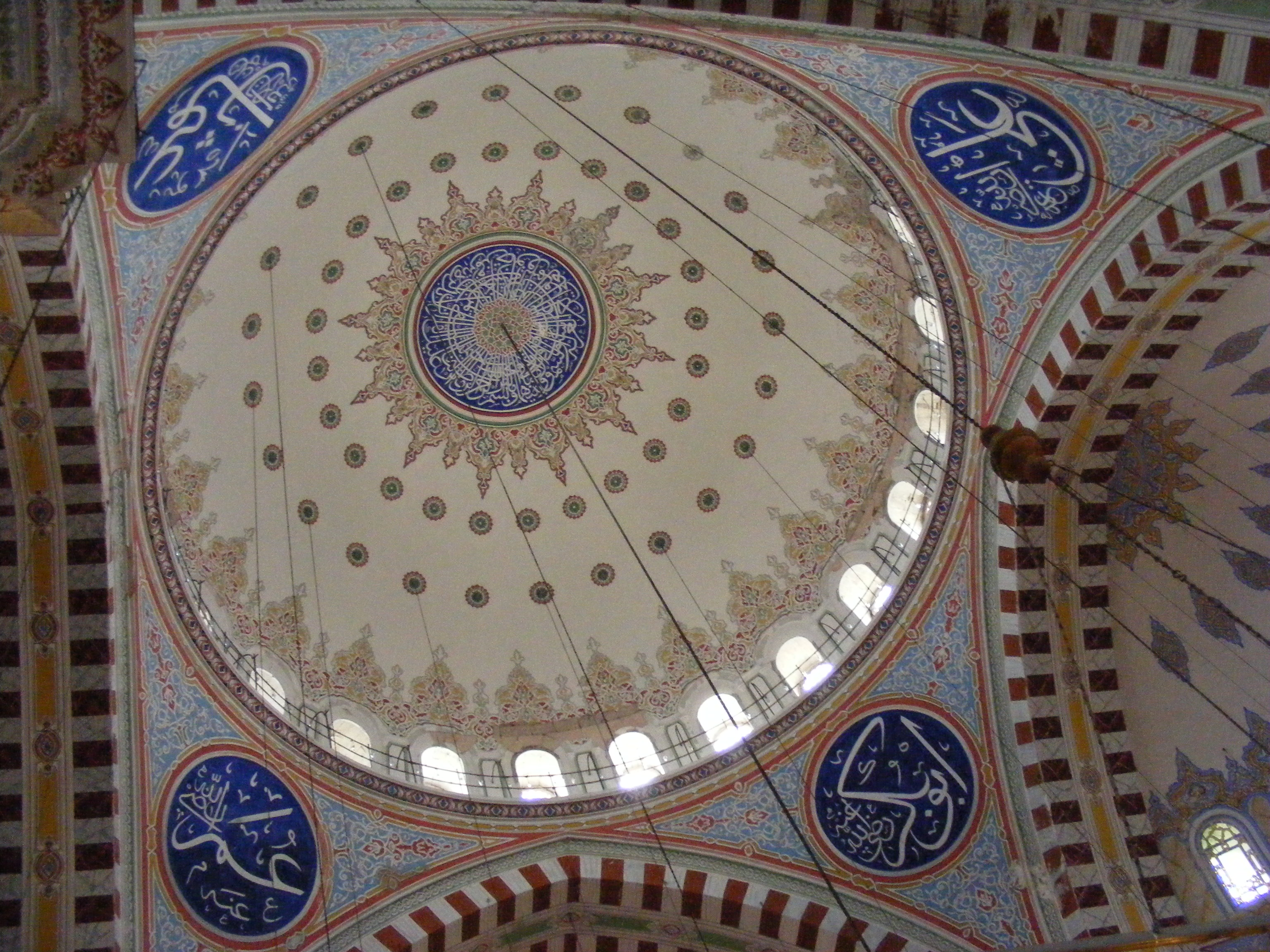 View of the Fatih Camii